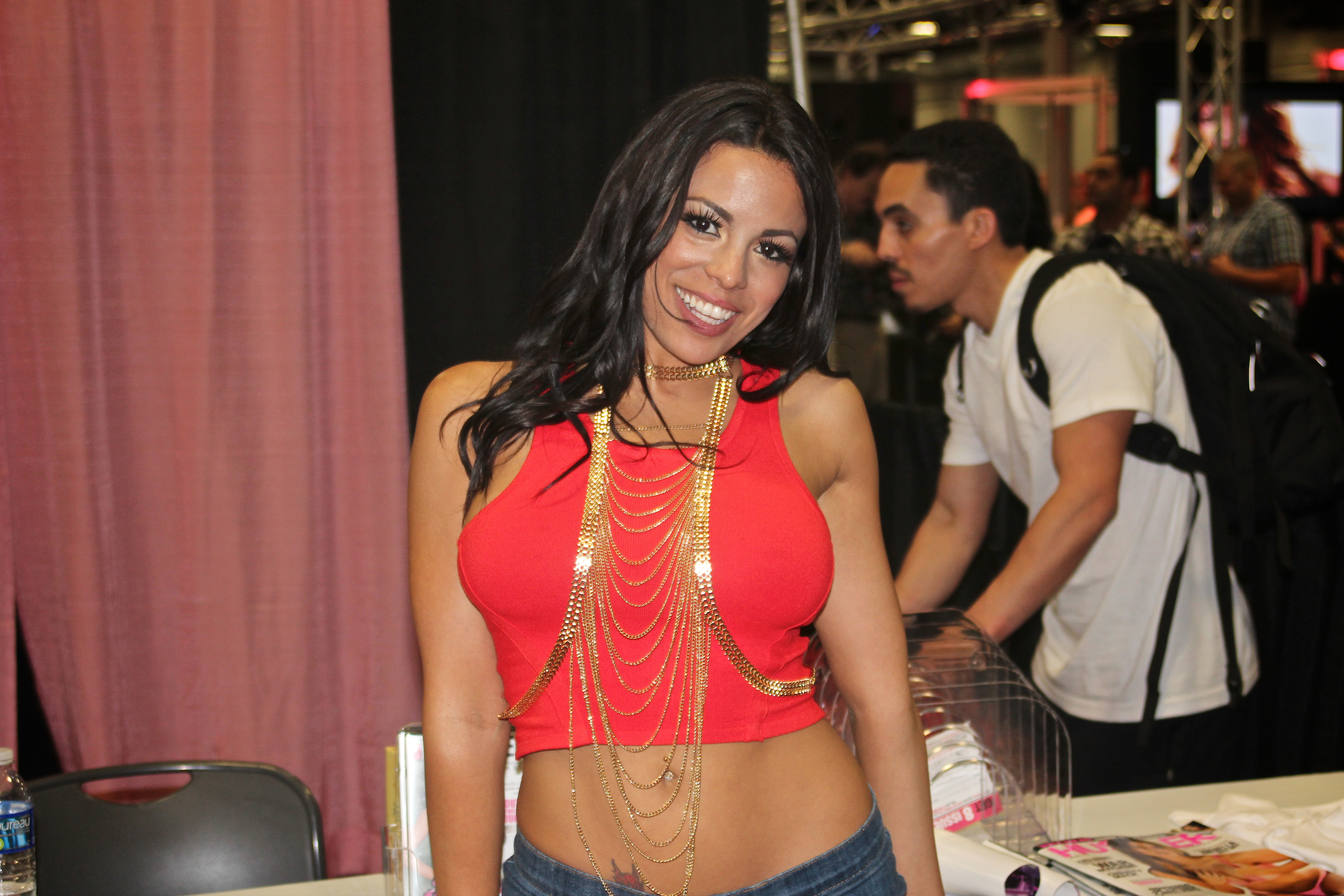 Luna Star at Exxxotica NJ 2013 in Edison, New Jersey.